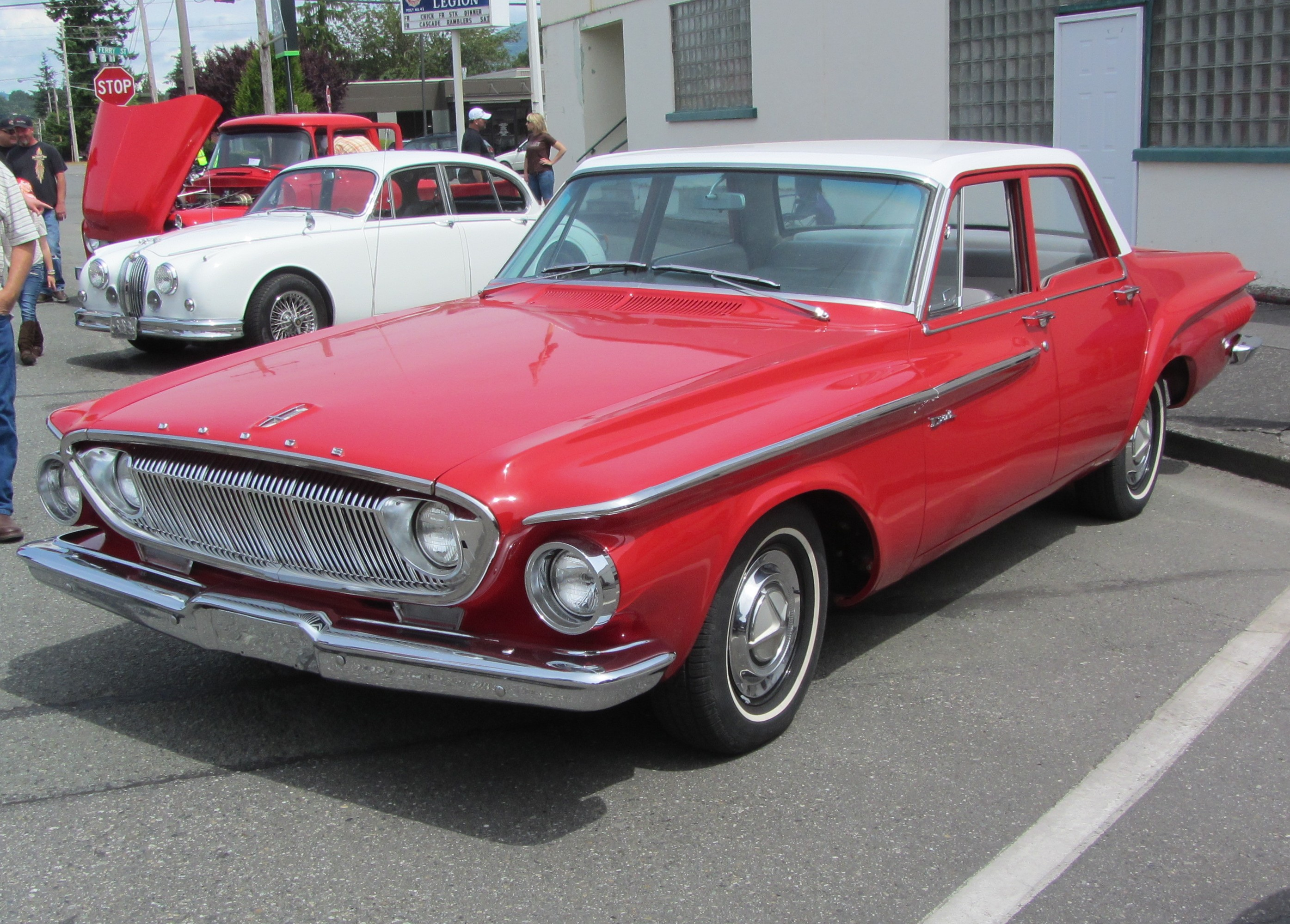 Sedro-Woolley WA Car Show